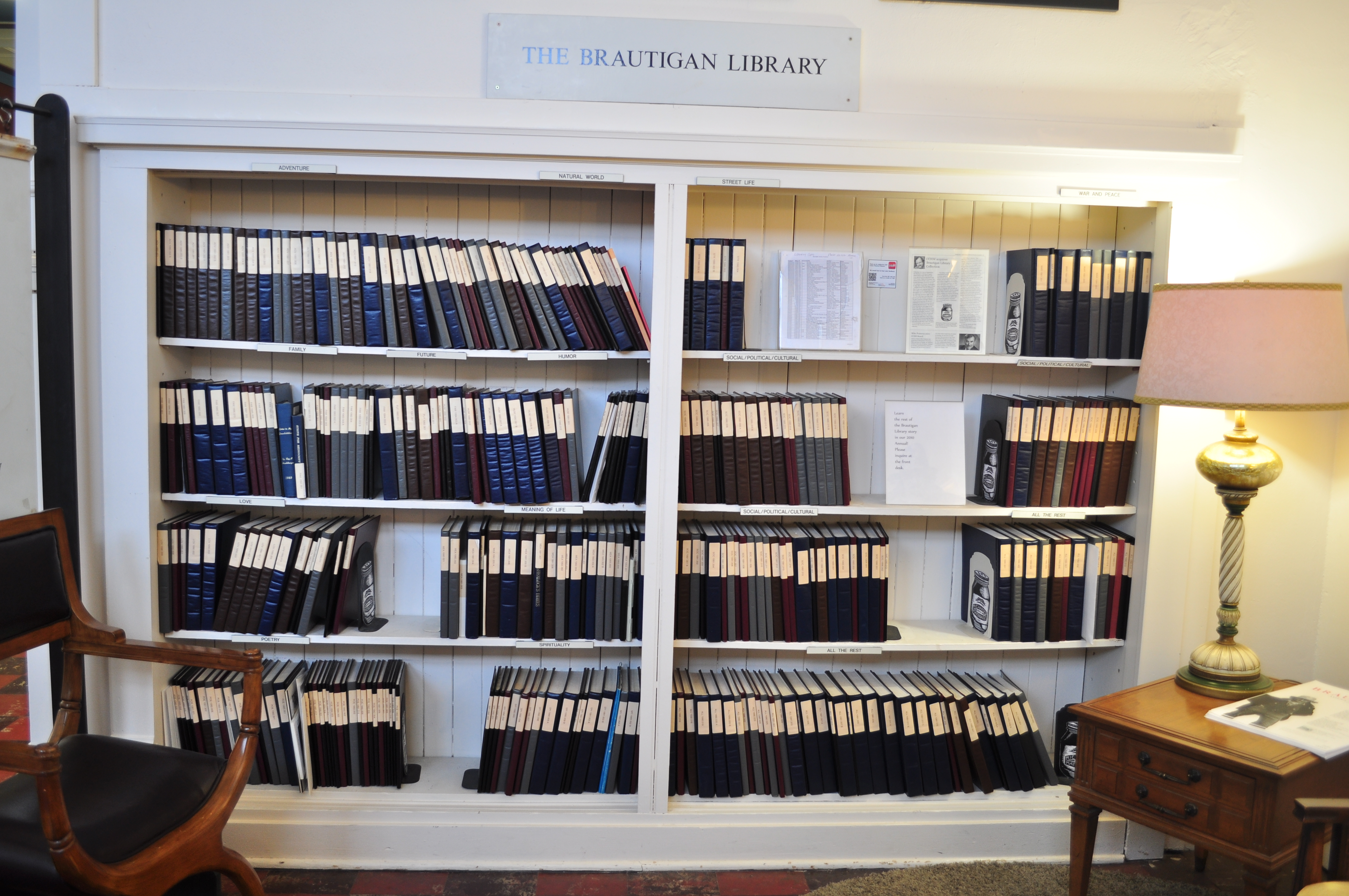 Brautigan Library at Clark County Historical Museum (former Carnegie Library), Vancouver, Washington. The Brautigan Library is a library of unpublished manuscripts, inspired by Richard Brautigan's novel The Abortion: An Historical Romance 1966 (1971).